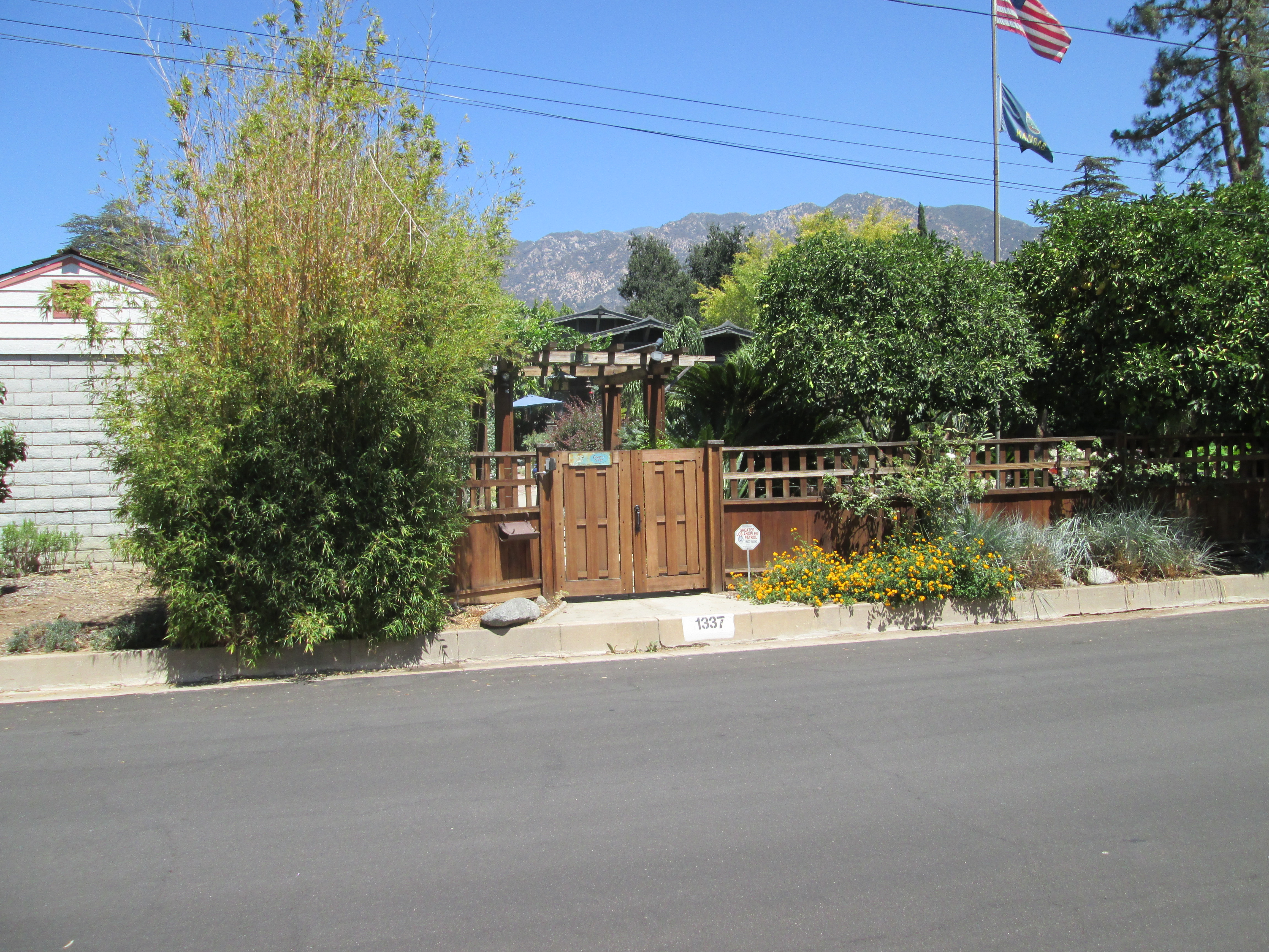 The Keyes Bungalow in Altadena CA is listed on the NRHP